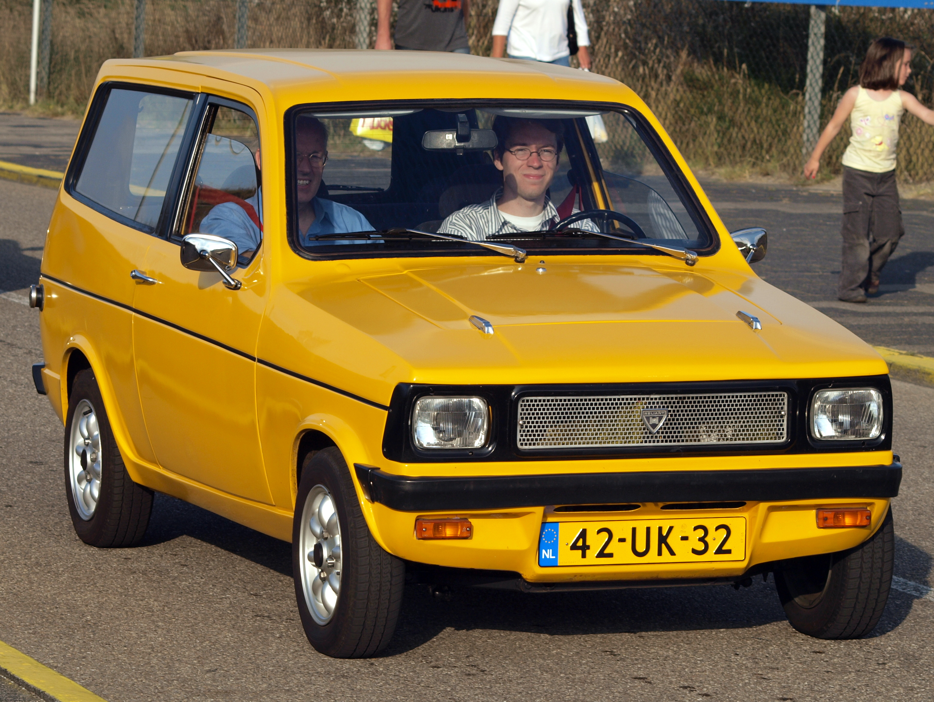 Photographed at the Nationaal Oldtimer Festival Zandvoort 2009, The Netherlands. OLYMPUS DIGITAL CAMERA